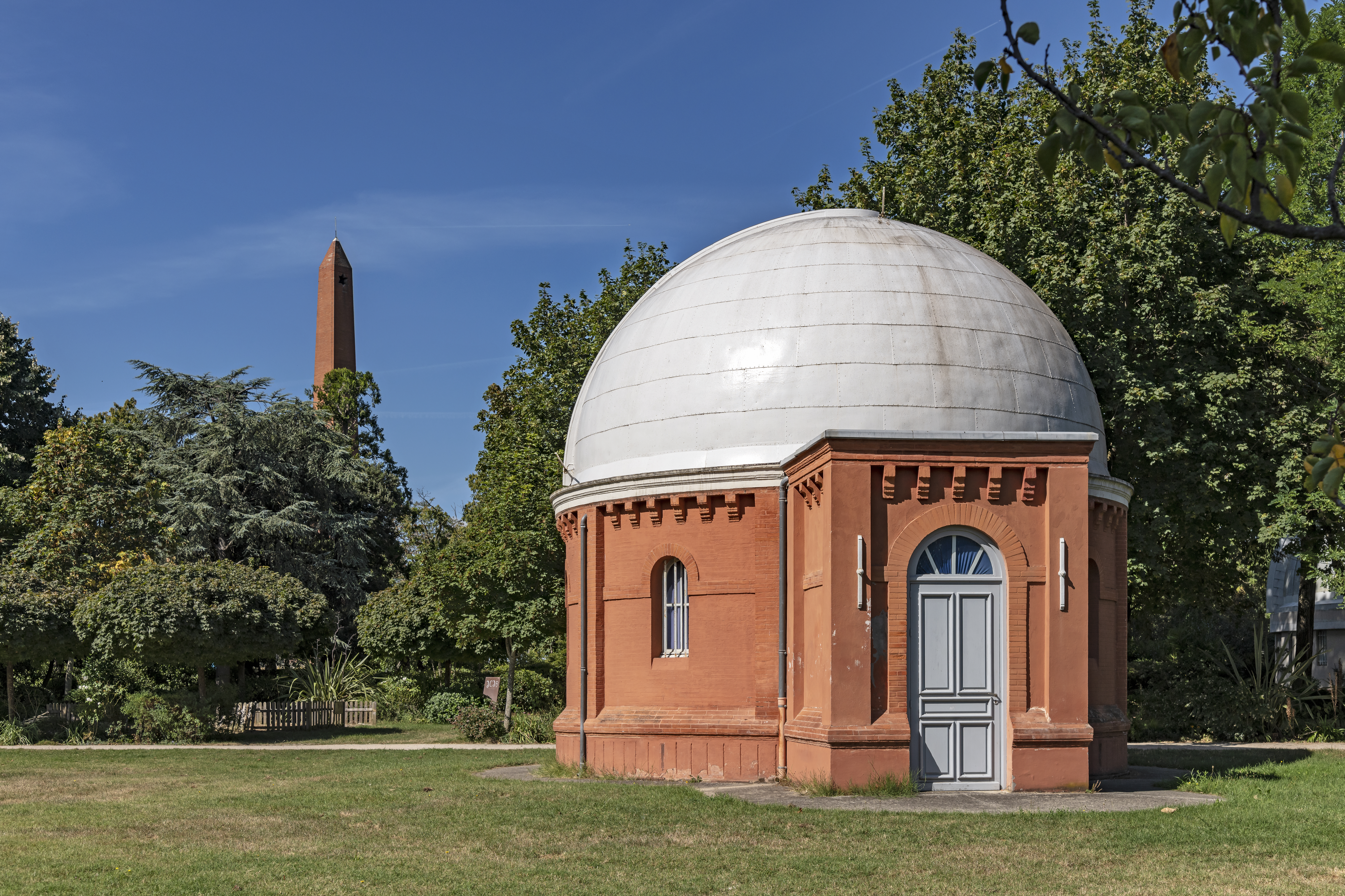 Toulouse Observatory, Urbain Vitry cupola, and the Column in the background.